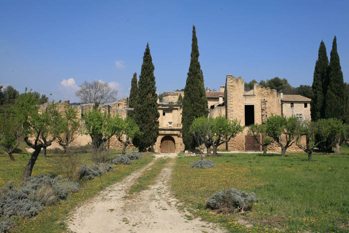 Casttle of Villelaure in Vaucluse, France